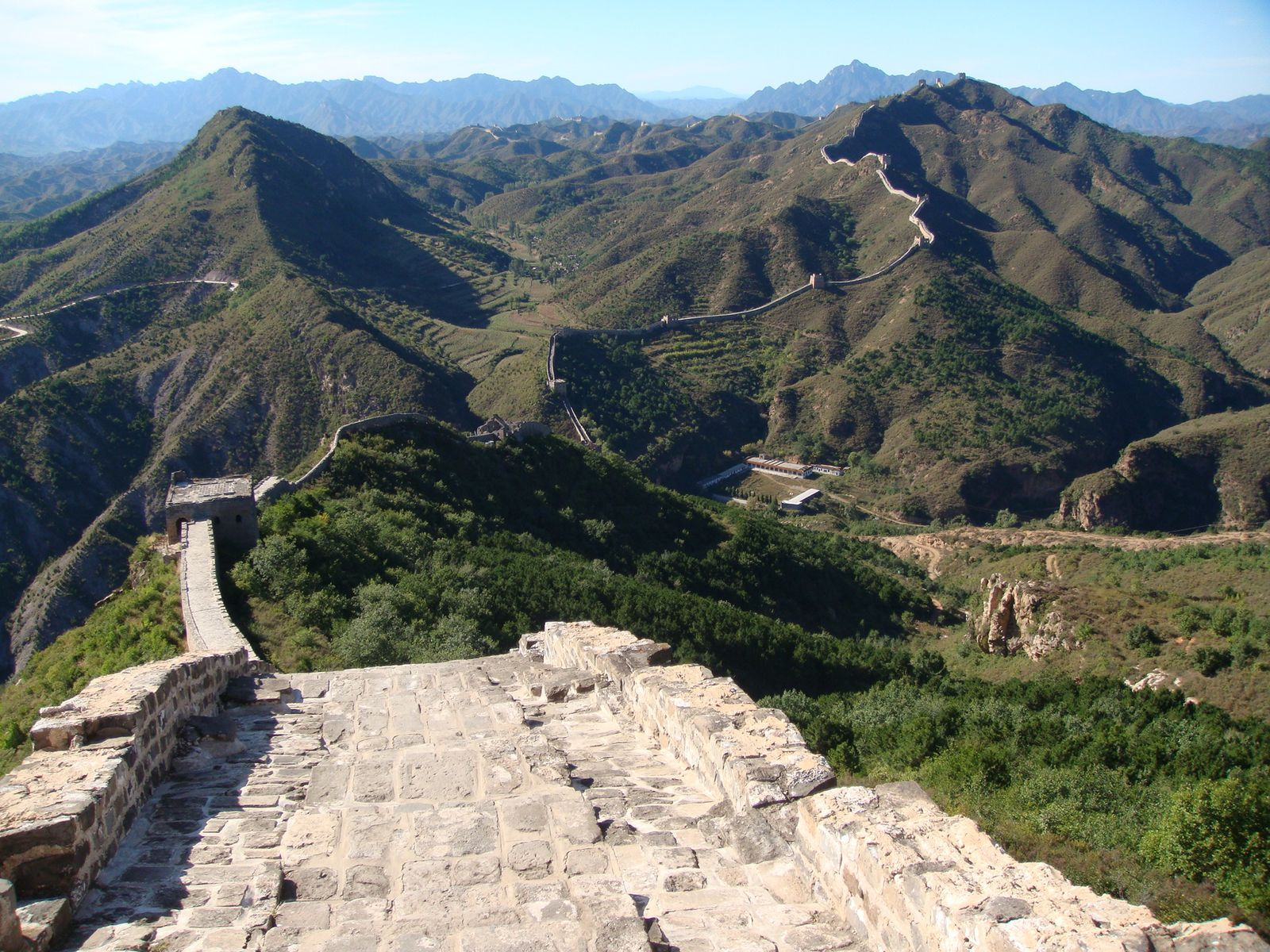 Simatai Great Wall, Beijing, China